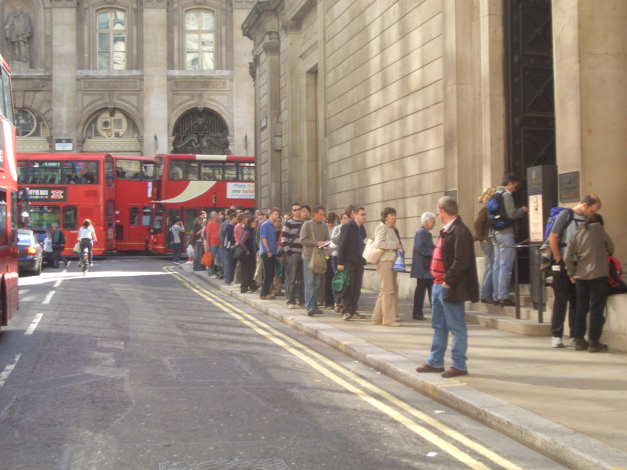 A queue of people waiting to look around the Bank of England as part of Open House London. Photo taken 17 September 2005 by User:Edward.